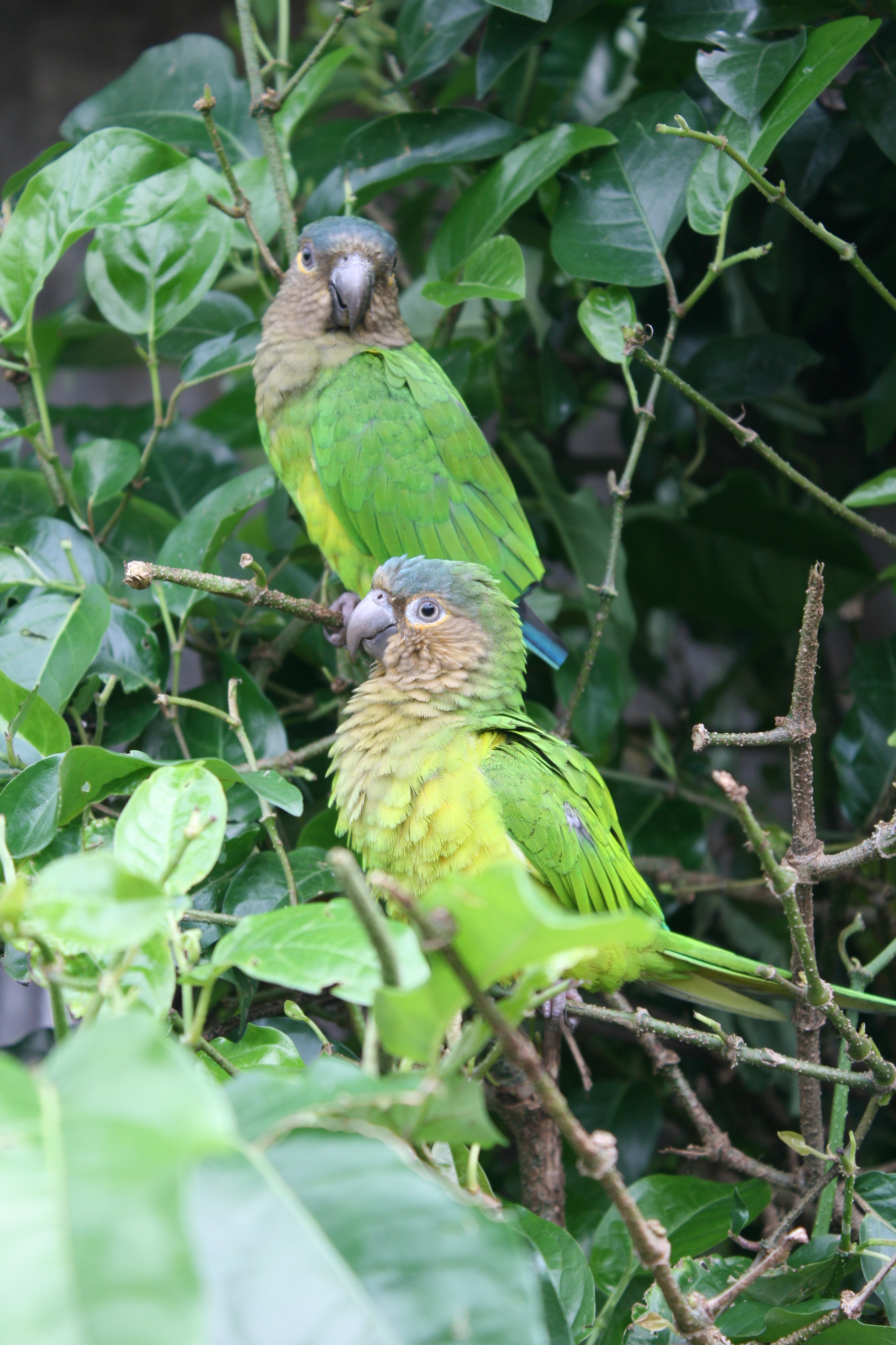 Eupsittula pertinax or "brown-throated Parakeet" at Barinitas, Barinas, Venezuela